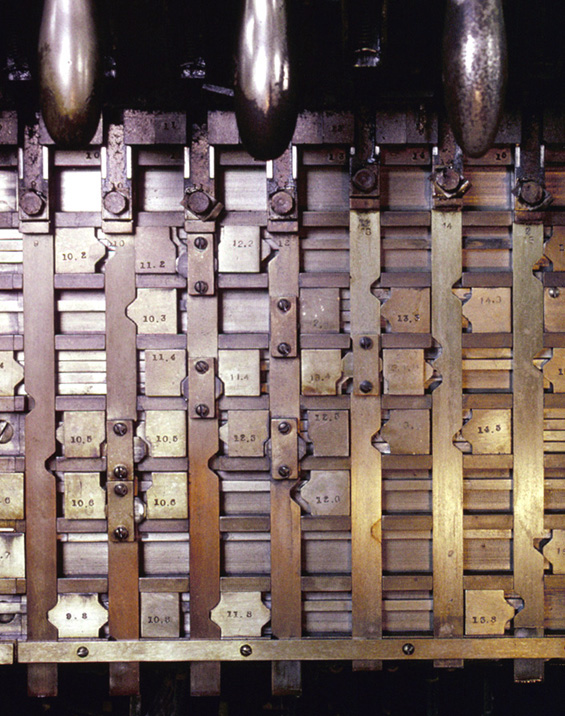 Mechanical locking bed in GRS Model 2 electric interlocking machine in Deval Tower, Des Plaines, Illinois circa.